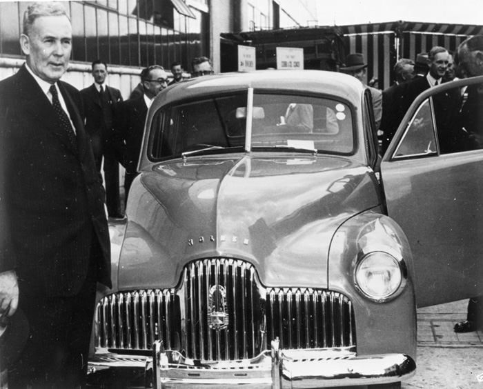 Prime Minister of Australia, Mr Ben Chifley, at the launching of the first mass-produced Australian car at the General Motors-Holden factory, Fisherman's Bend, Melbourne.